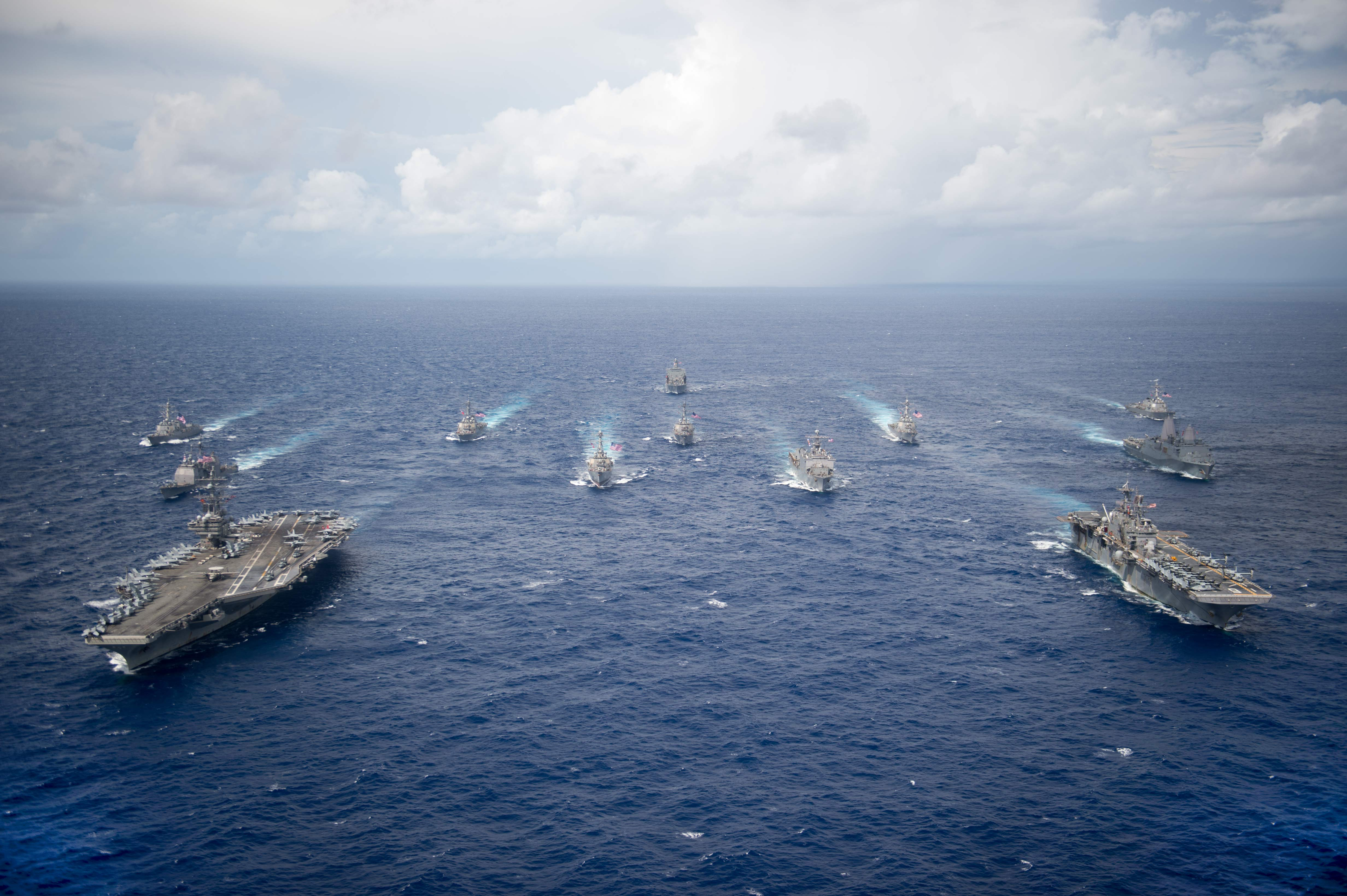 PHILIPPINE SEA (Sept. 23, 2016) USS Ronald Reagan (CVN 76) and USS Bonhomme Richard (LHD 6) lead a formation of Carrier Strike Group Five and Expeditionary Strike Group Seven ships including, USS Momsen (DDG 92), USS Chancellorsville (CG 62), USS Stethem (DDG 63), USS Benfold (DDG 65), USS Curtis Wilbur (DDG 54), USS Germantown (LSD 42), USS Barry (DDG 52), USS Green Bay (LPD 20), USS McCampbell (DDG 85), as wells as USNS Walter S. Diehl (T-AO 193) during a photo exercise to signify the completion of Valiant Shield 2016. Valiant Shield is a biennial, U.S. only, field-training exercise with a focus on integration of joint training among U.S. forces. This is the sixth exercise in the Valiant Shield series that began in 2006. (U.S. Navy photo by Mass Communication Specialist 2nd Class Christian Senyk/Released)160923-N-NT265-419 Join the conversation: navylive.dodlive.mil